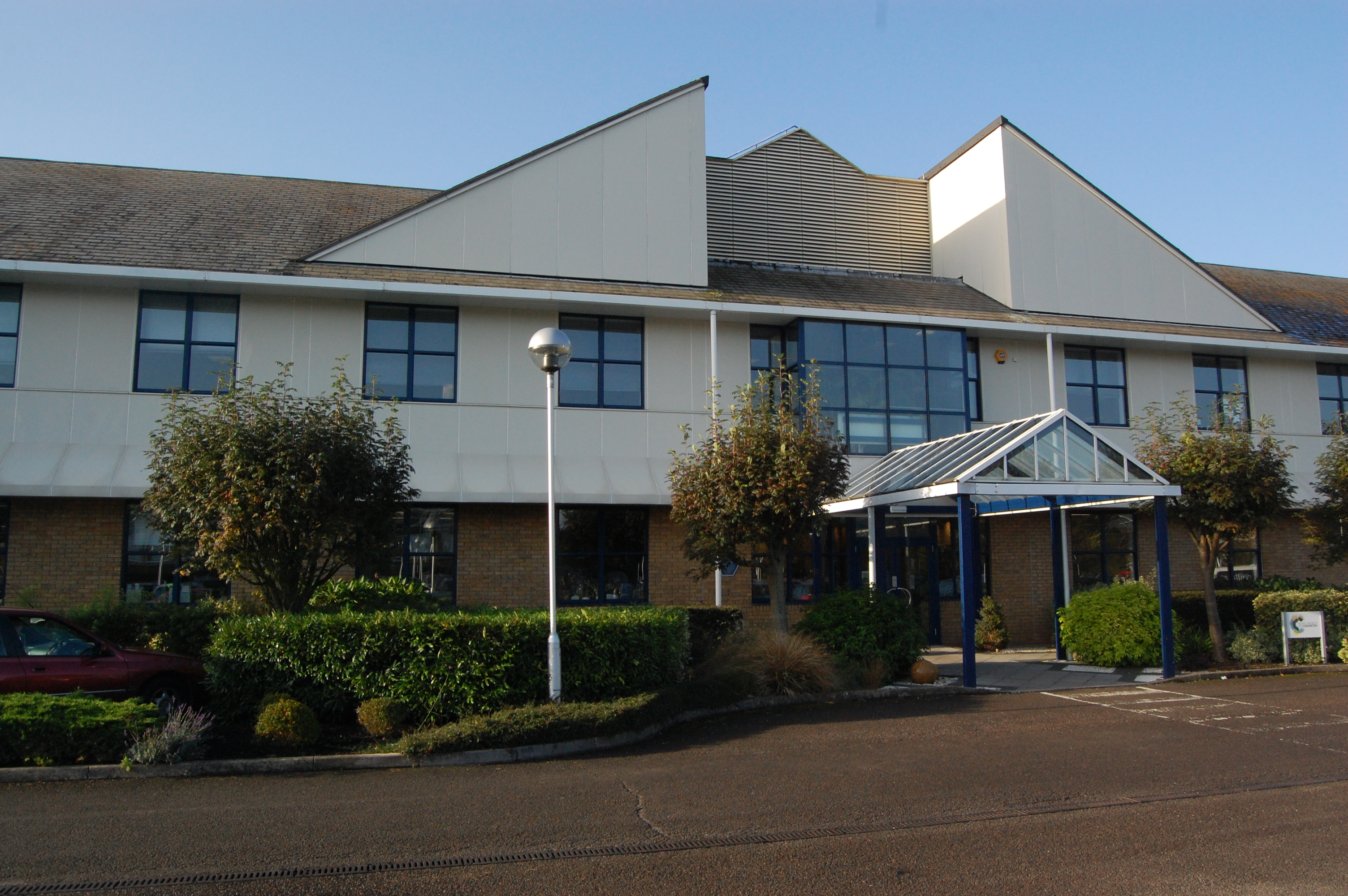 The Royal Society of Chemistry's 'Thomas Graham House', Cambridge, England.